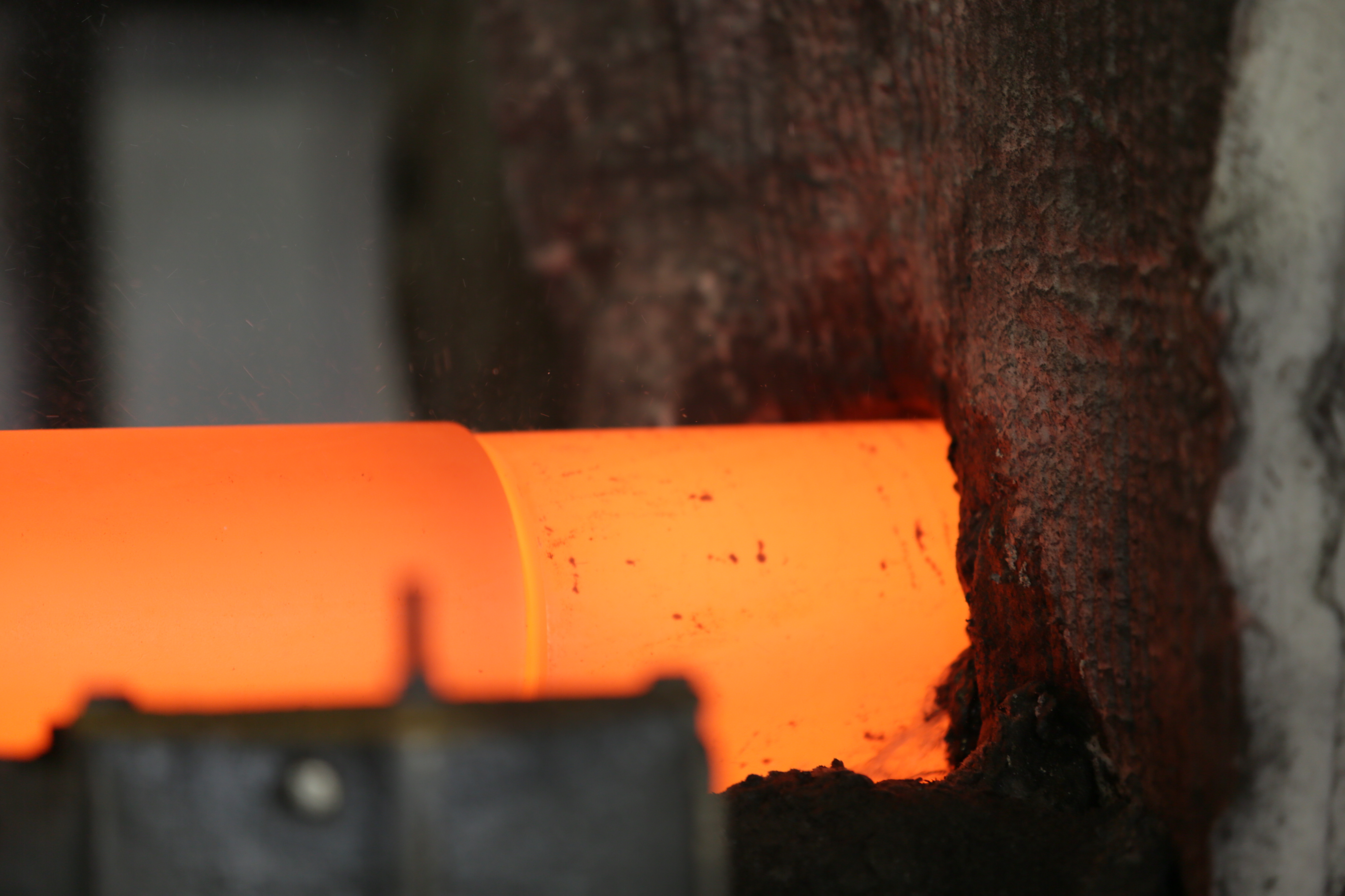 Example of billet heating